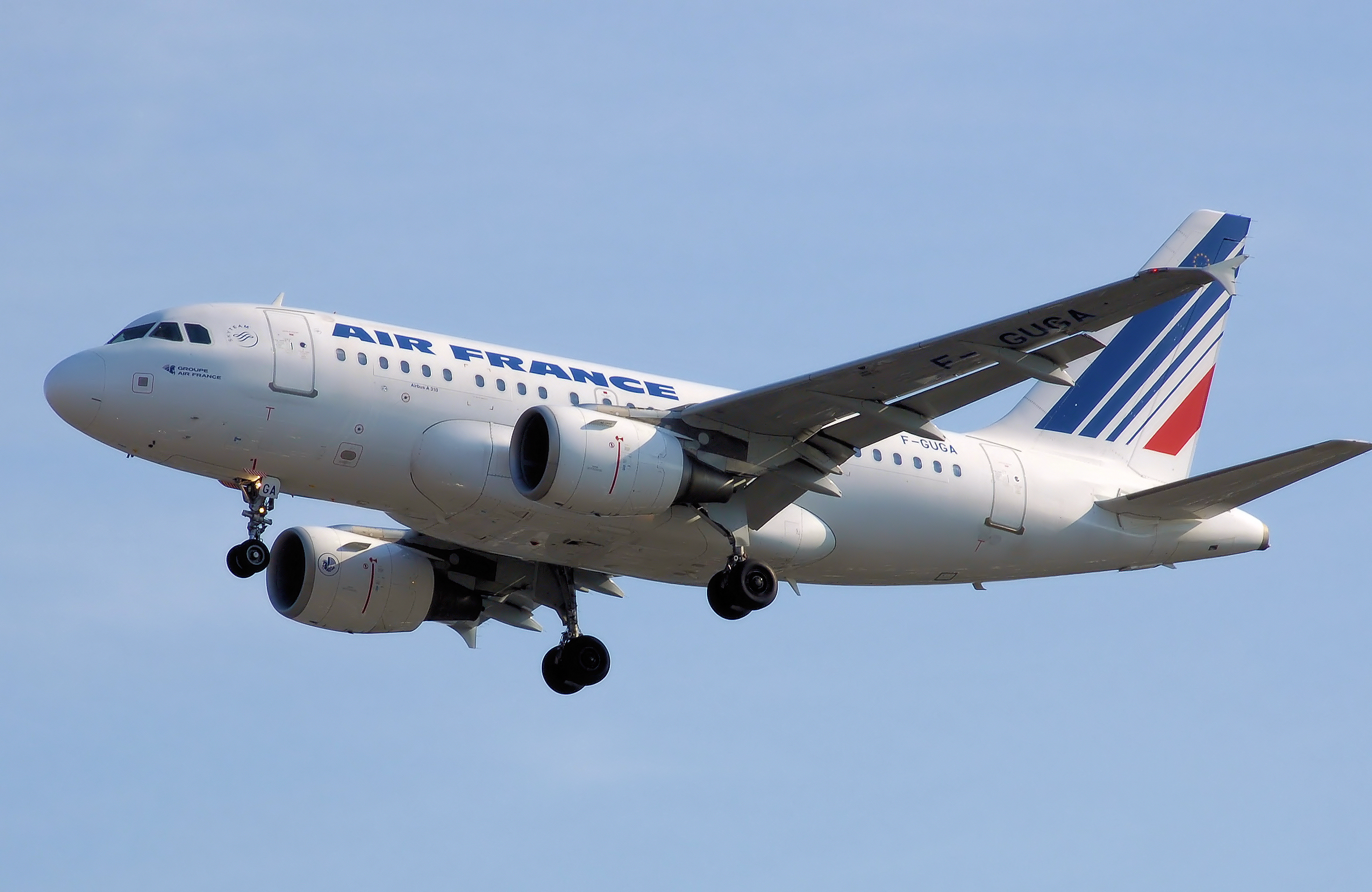 Air France Airbus A318-100 (F-GUGA) landing at London Heathrow Airport.